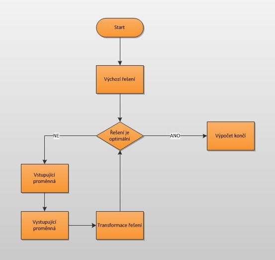 Simplex algorithm in diagram Česky: Diagram simplexové metody